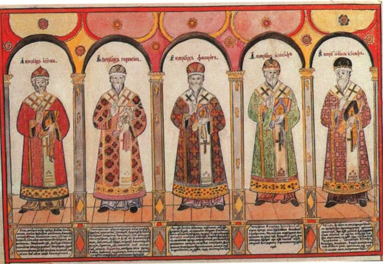 First five patriarchs of the Russian Orthodox church: Job, Hermogenus, Philaret, Joasaphus, Joseph. Russian lubok.